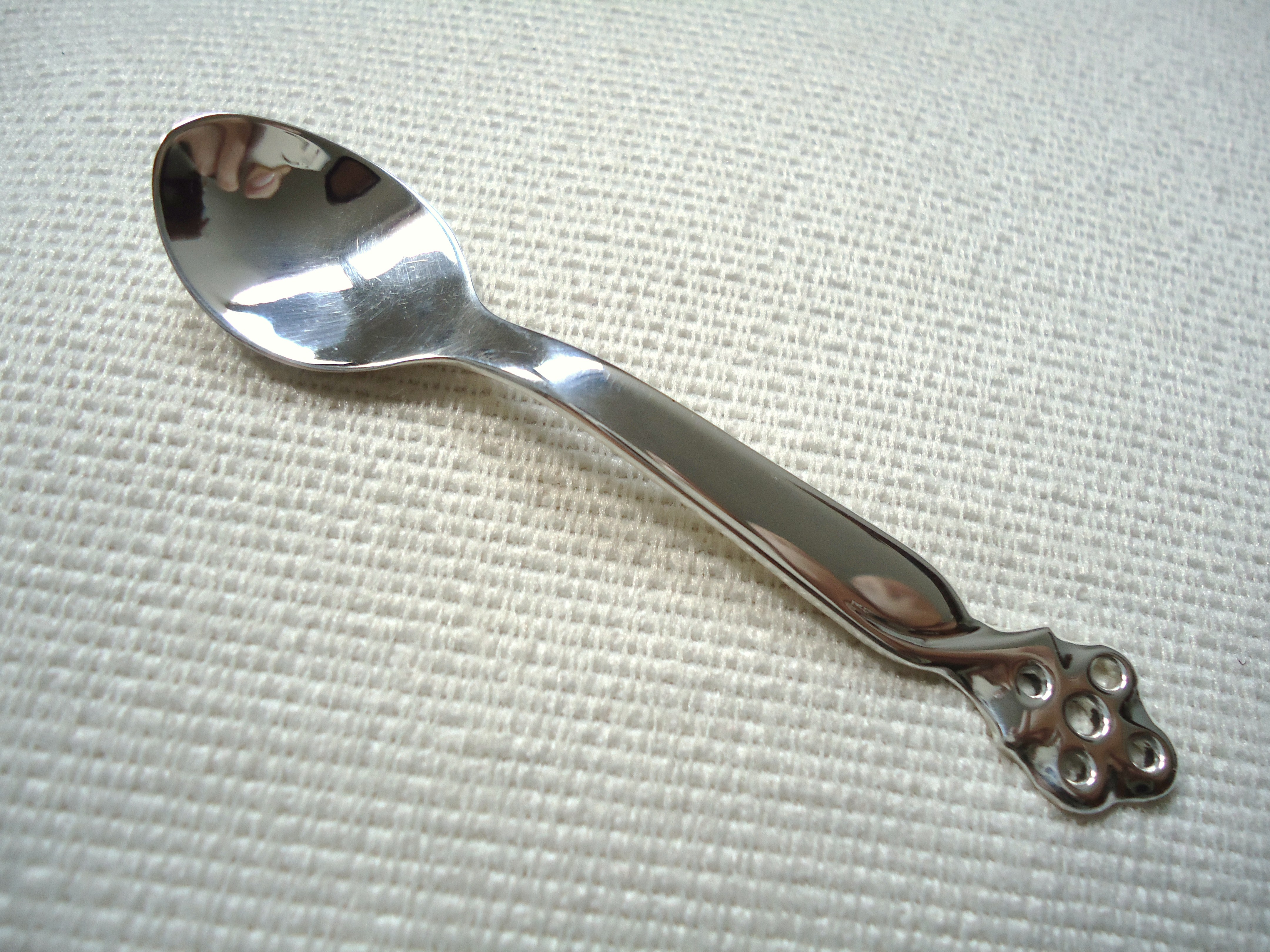 Hand-carved silver spoon. Made by Mauro Cateb, Brazilian jeweler and silversmith.